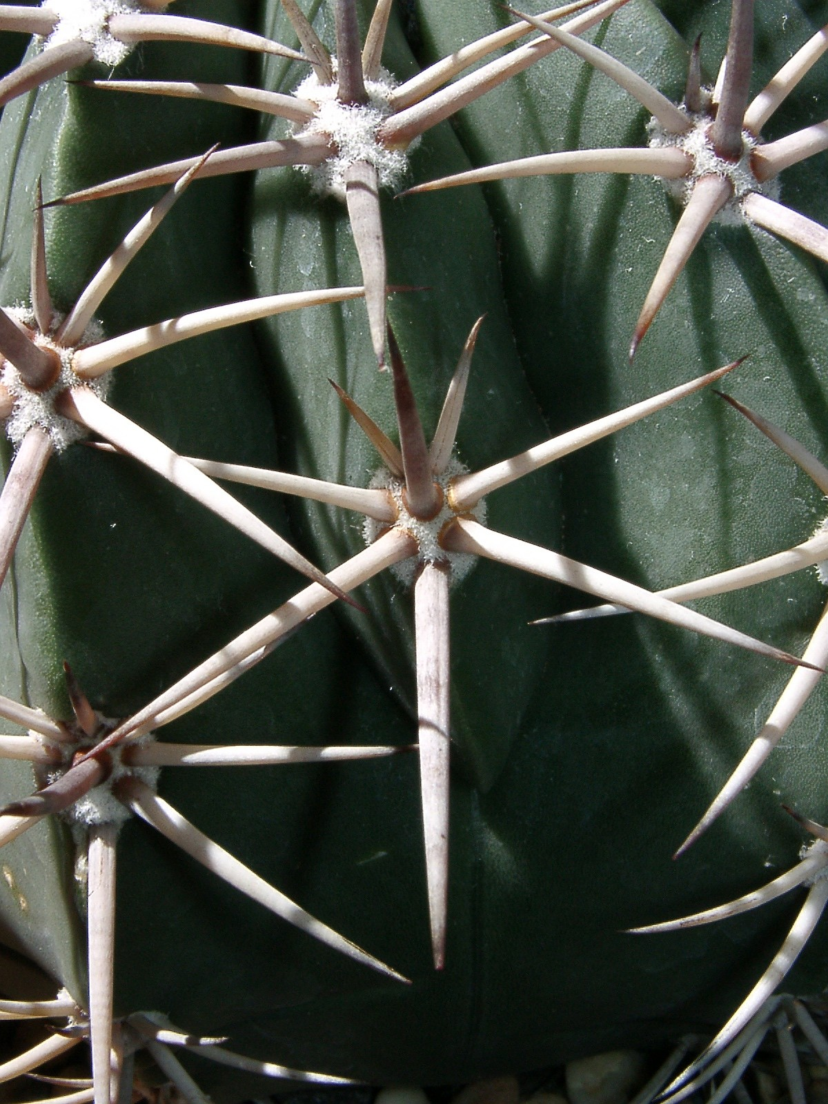 Echinocactus platyacanthus